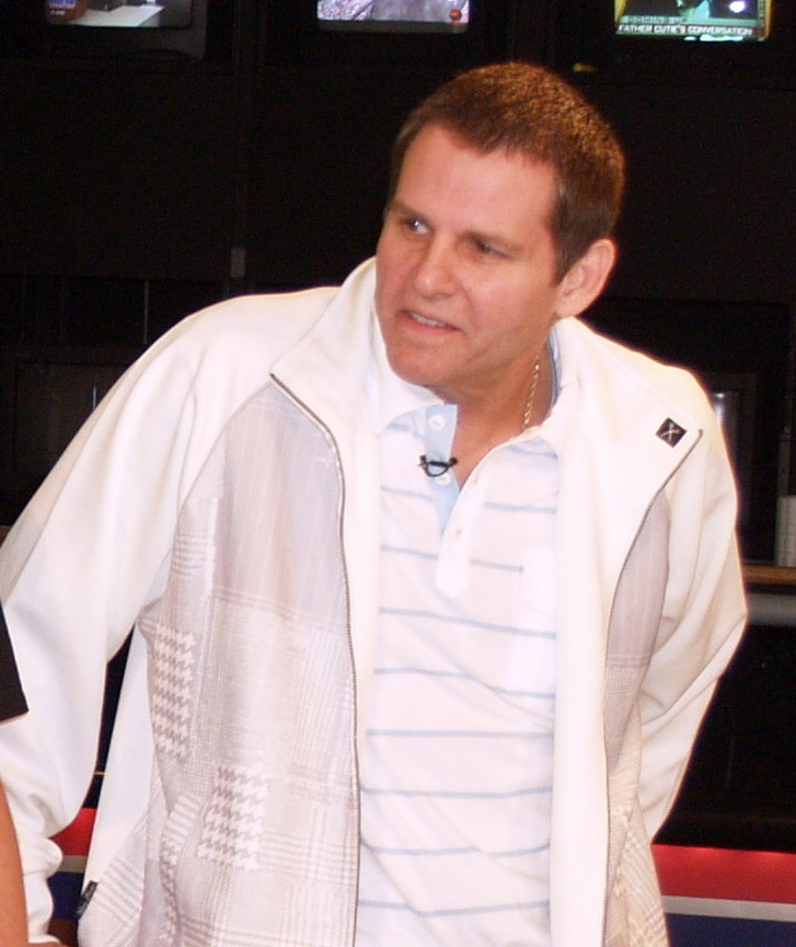 I took this photo of casino owner Joe Maloof in San Diego. He was in town promoting the Maloof Money Cup for skateboarders.